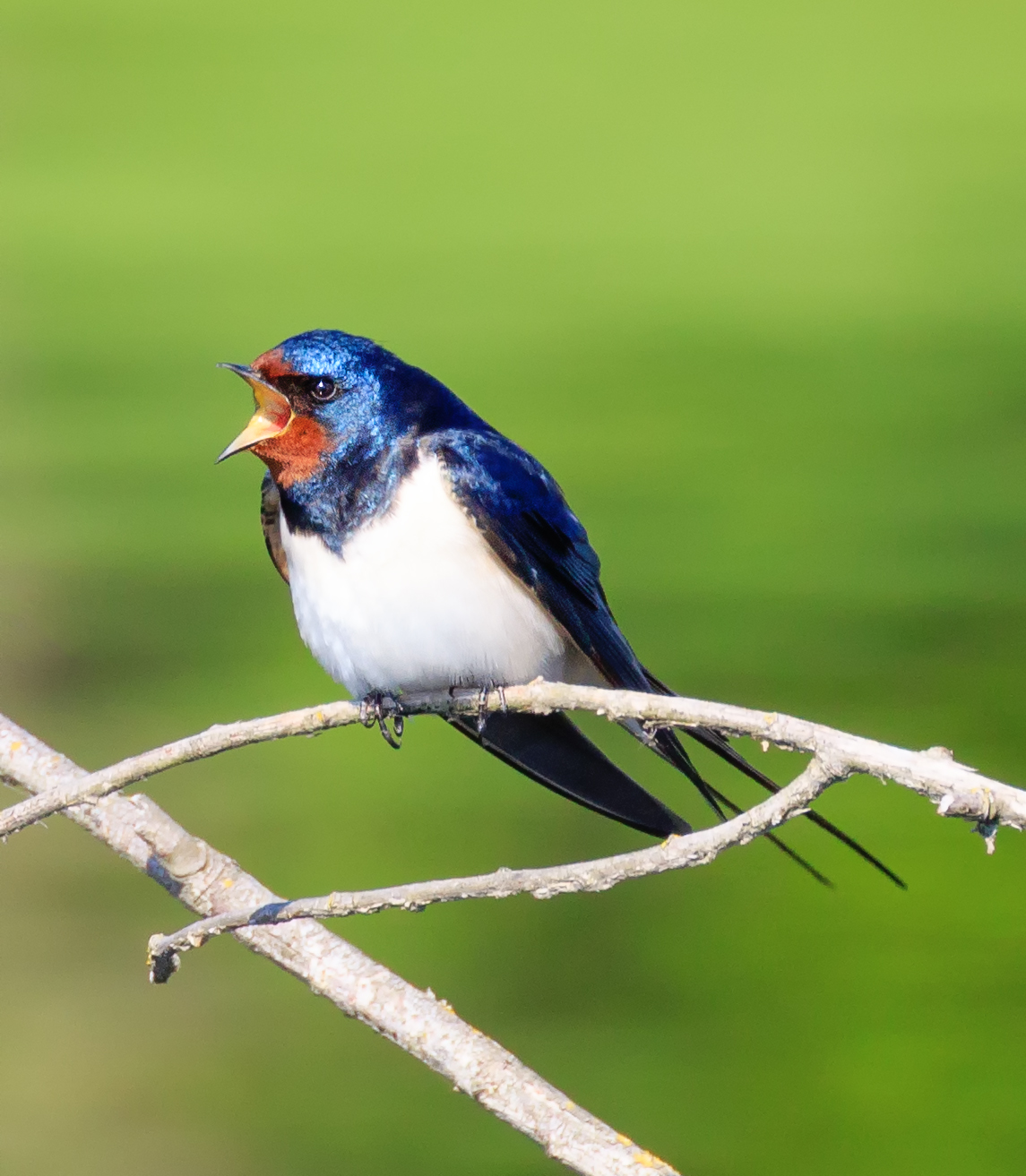 European Barn Swallow seen in Comana Danube, Romania